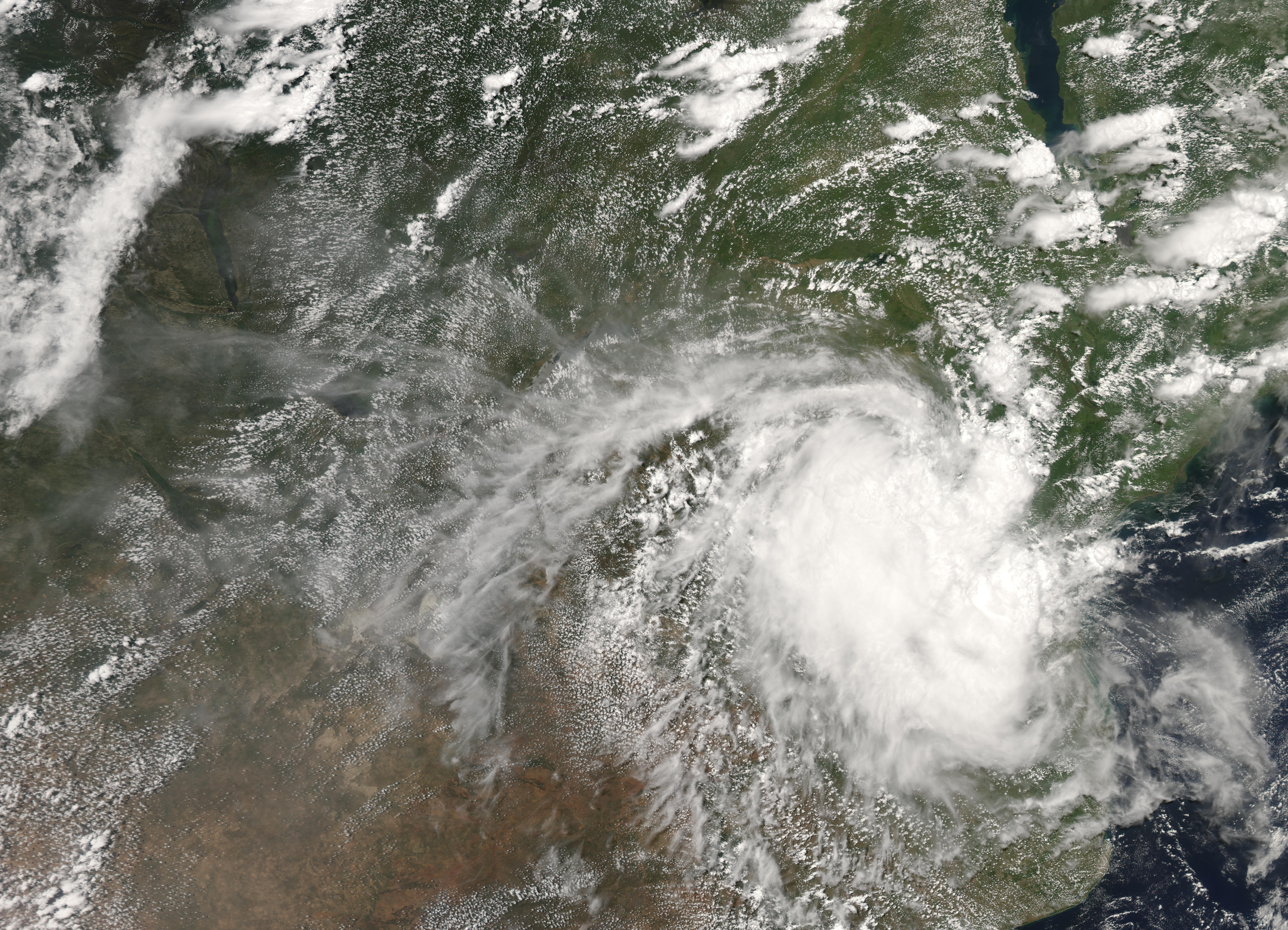 Tropical Cyclone Favio came ashore on the coast of Mozambique on the morning of February 22, 2007. At the time it crossed the shoreline, Favio had lost some strength from its peak the previous day, but still had extremely powerful winds. The cyclone continued to weaken as it passed over land, becoming a tropical depression. As of 8:00 a.m. local time (0600 UTC), winds were down to 60 kilometers per hour (38 miles per hour), according to the South African Weather Service. This photo-like image was acquired by the Moderate Resolution Imaging Spectroradiometer (MODIS) on the Aqua satellite on February 23, 2007, at 1:45 p.m. local time (11:45 UTC), as the tropical depression was crossing into Zimbabwe. The storm still has a distinct balled-up form left over from its cyclone state the previous day, but once over land, the strong circular eye and powerful eyewall storms typical of a cylone were gone. As it traveled farther inland towards the Zambezi River valley, the storm brought heavy rains to Zimbabwe. This region had already suffered from heavy rains associated with the onset of the monsoon, and severe flooding along the Zambezi River in mid-February killed dozens of people and forced more than a hundred thousand people to evacuate, according to reports from the International Federation of Red Cross and Red Crescent Societies posted online by ReliefWeb. There had been widespread additional evacuations ahead of Cyclone Favio’s arrival.